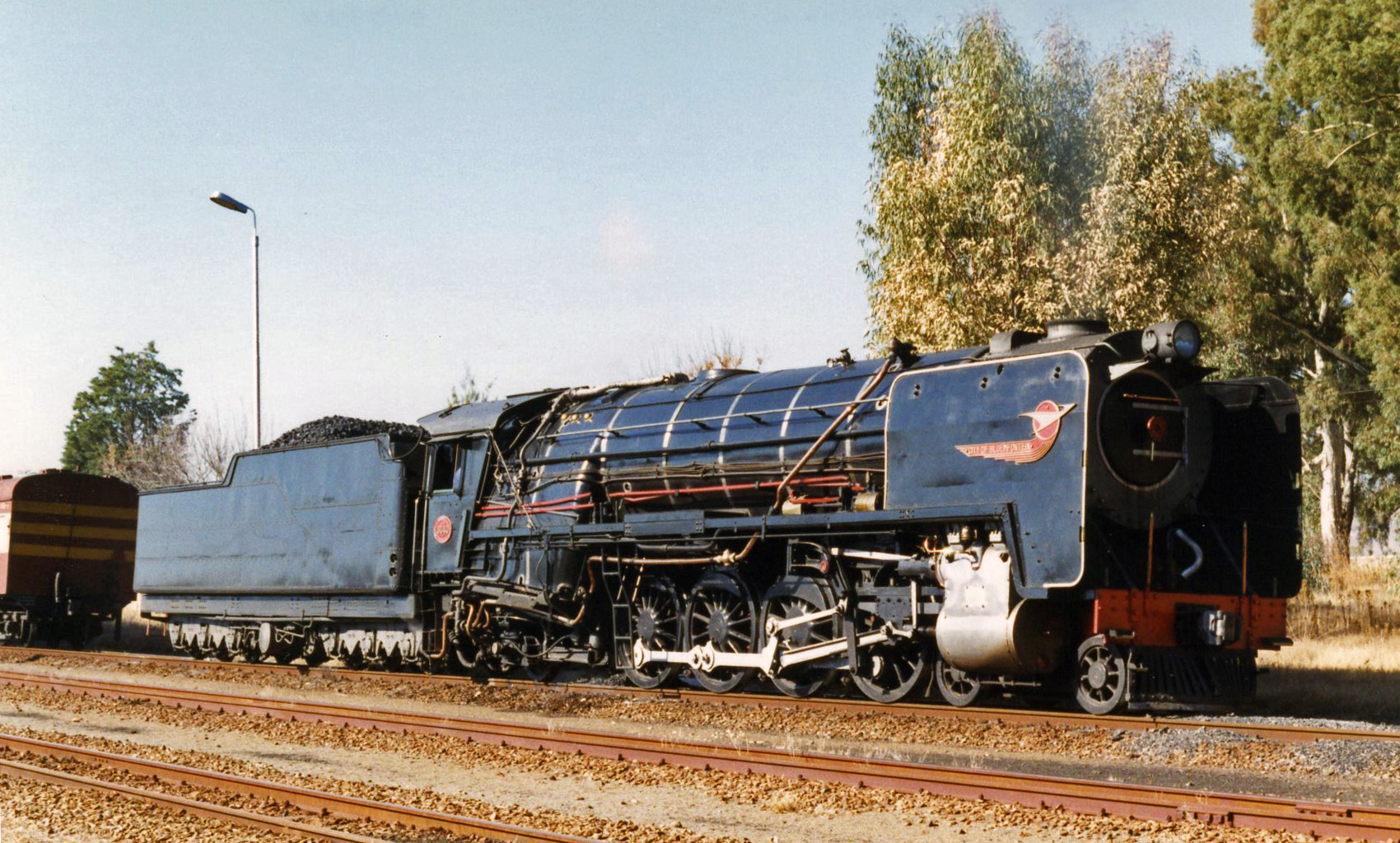 SAR Class 15F 3040 (4-8-2) NBL Location: Clocolan